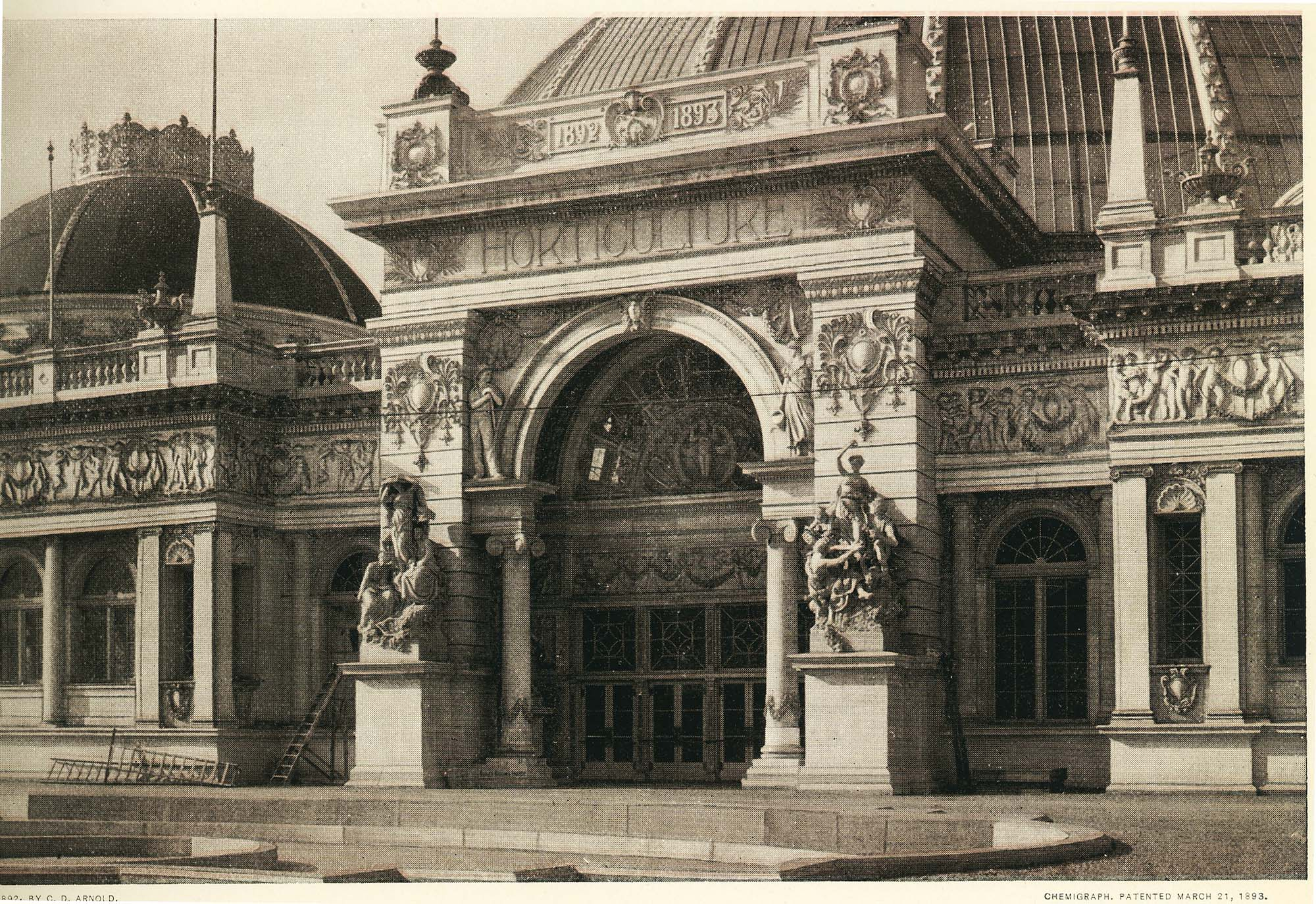 Horticultural Building at the World's Columbian Expo, Chicago, IL. USA, 1893 showing sculpture by Lorado Taft and the White Rabbits